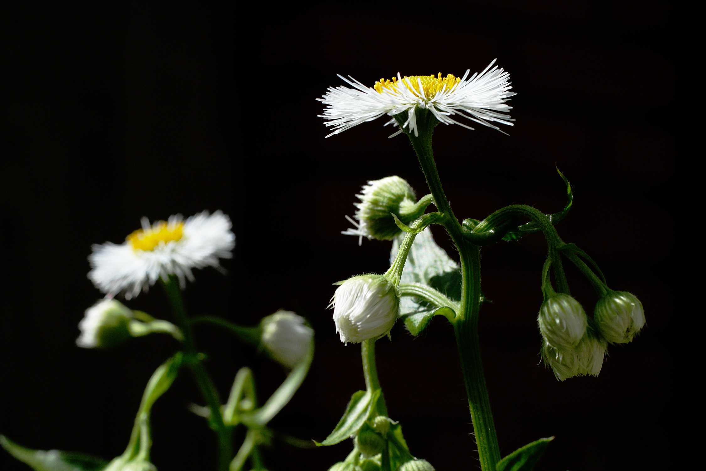 Erigeron annuus flower and buds.